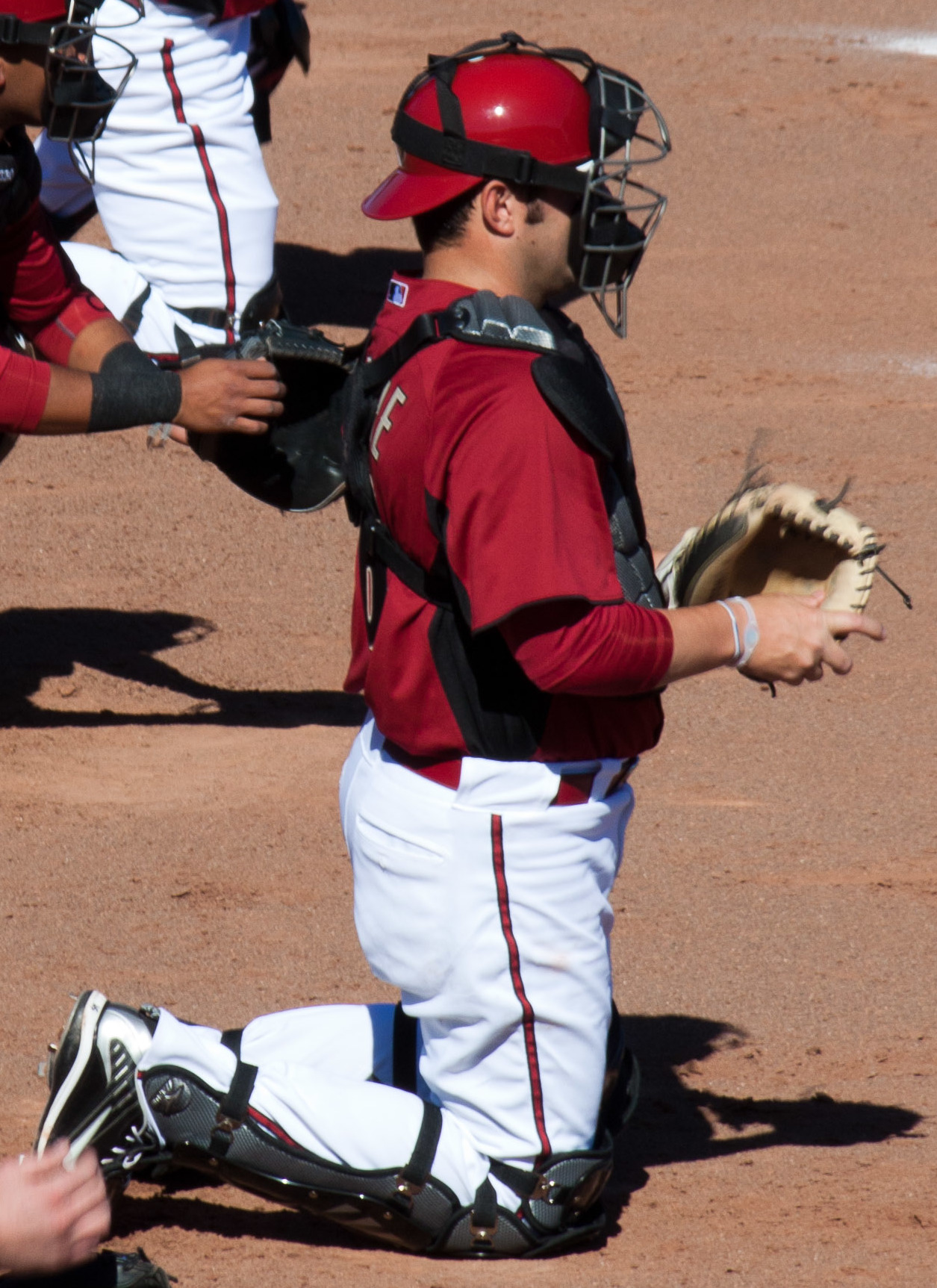 Arizona Diamondbacks catchers, including Miguel Montero, Konrad Schmidt and P. J. Pilittere, catch bullpen sessions during spring training in February 2011.